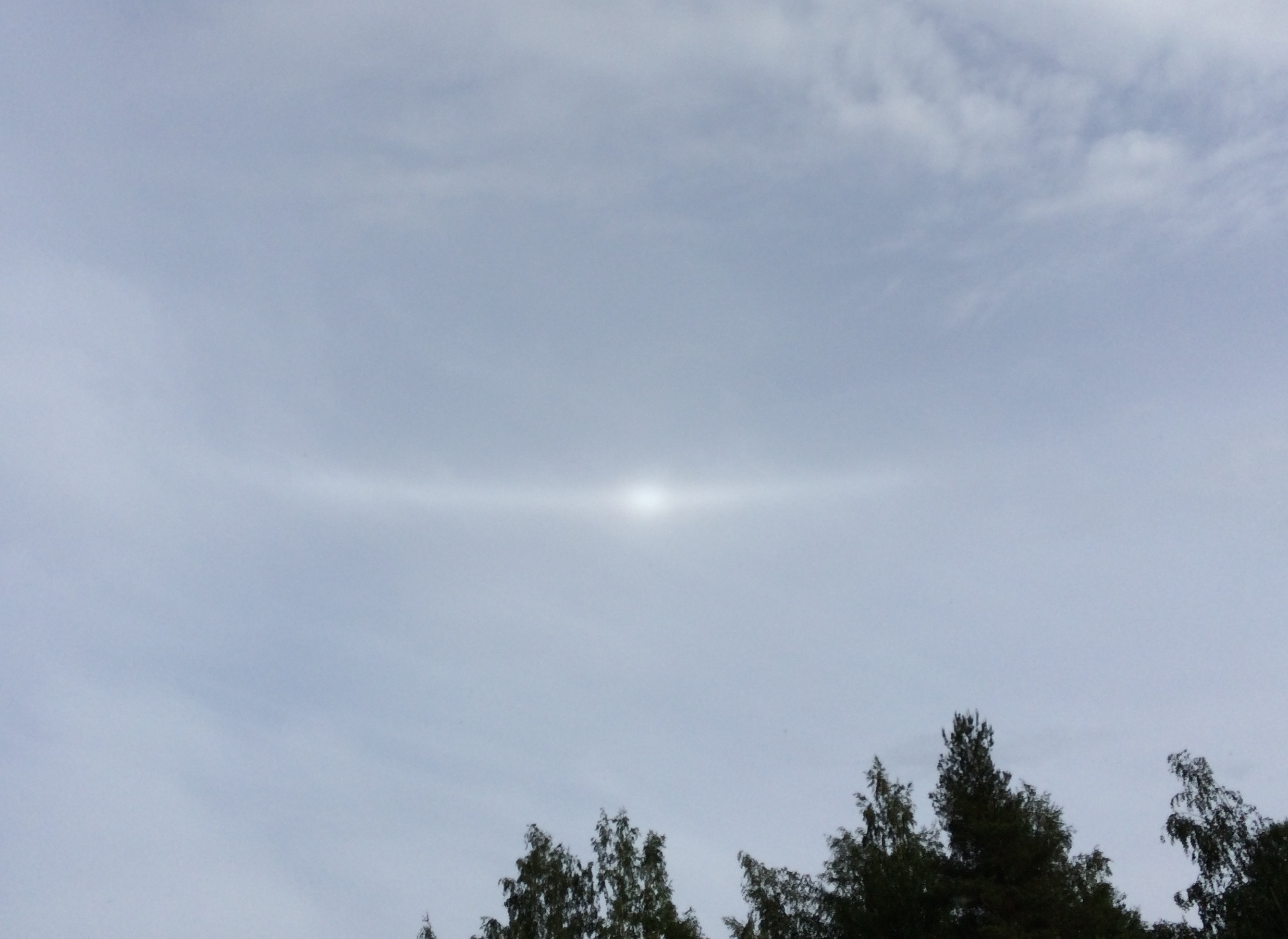 120° parhelion and a partial parhelic circle. Lammi, Hämeenlinna, Finland.